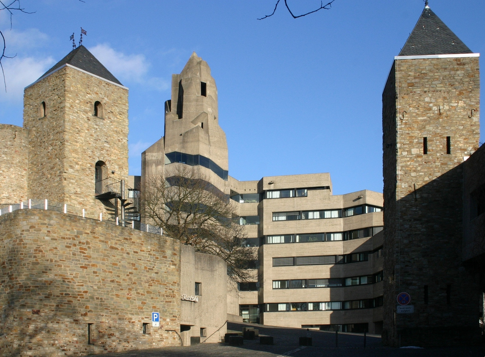 Rathaus Bensberg